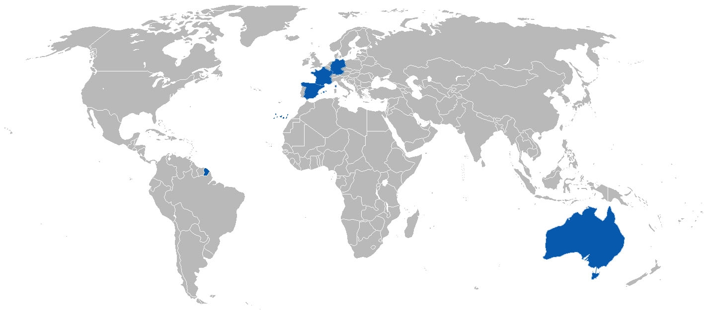 This map shows the users of the Eurocopter Tiger (Australia, France, Germany and Spain).